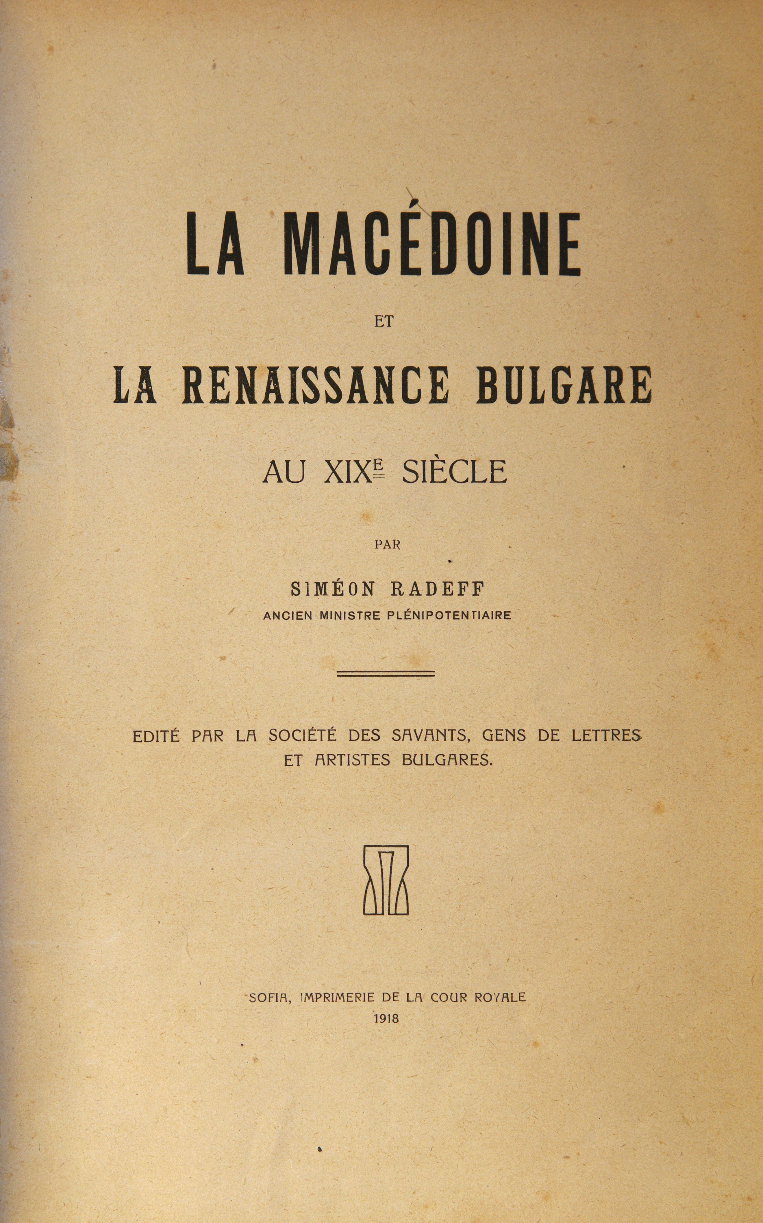 La Macédoine et La Renaissance Bulgare